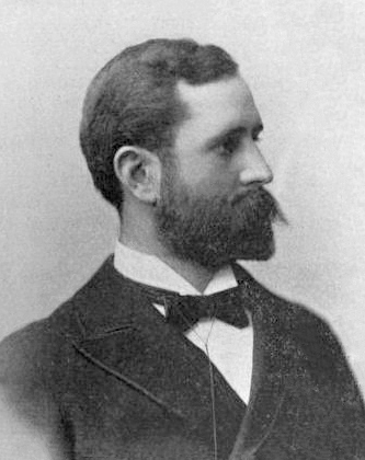 Bass singer, voice teacher and music critic of the Chicago Evening Post, Karleton Hackett; vice-president American Conservatory.